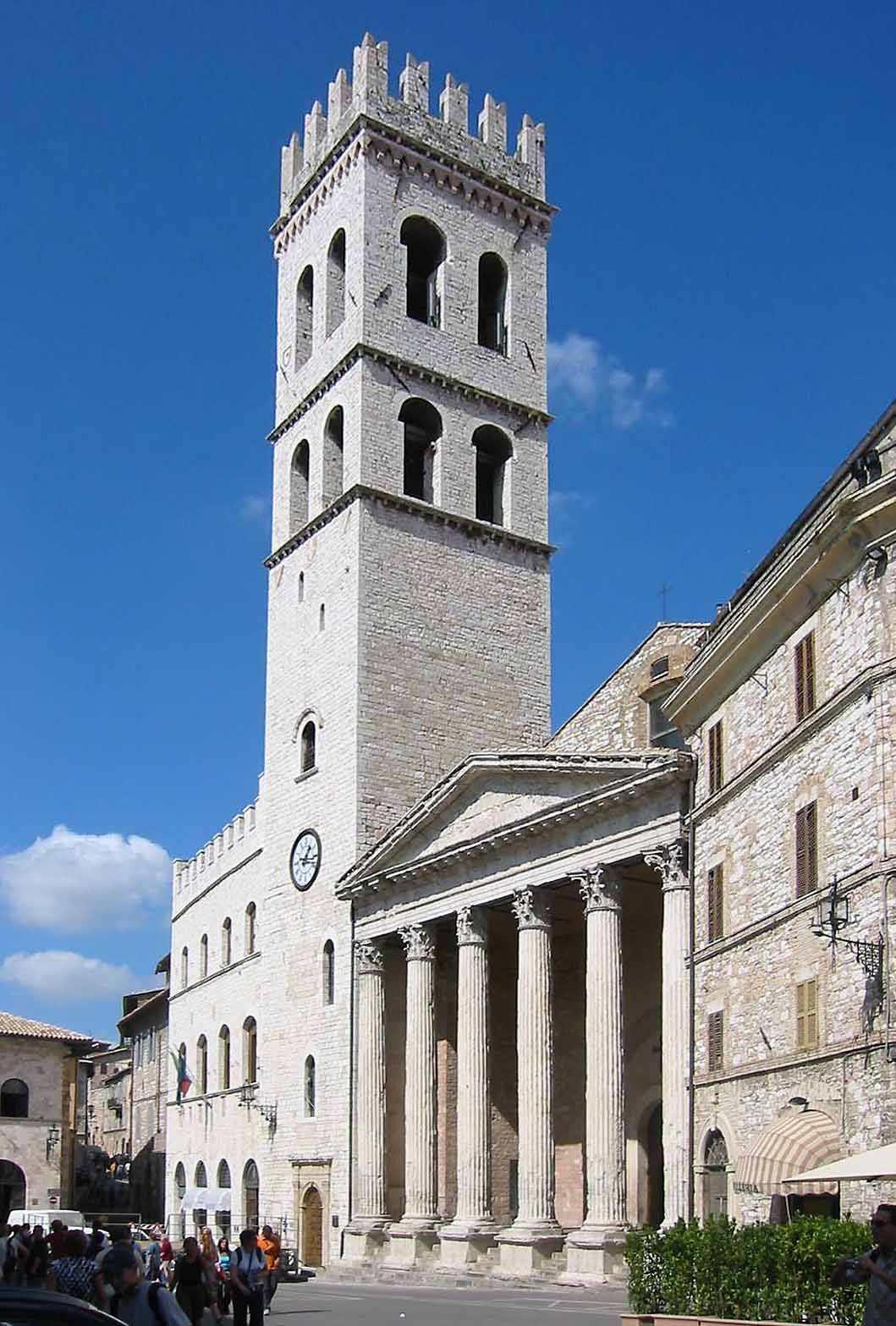 Santa Maria sopra Minerva, Assisi.